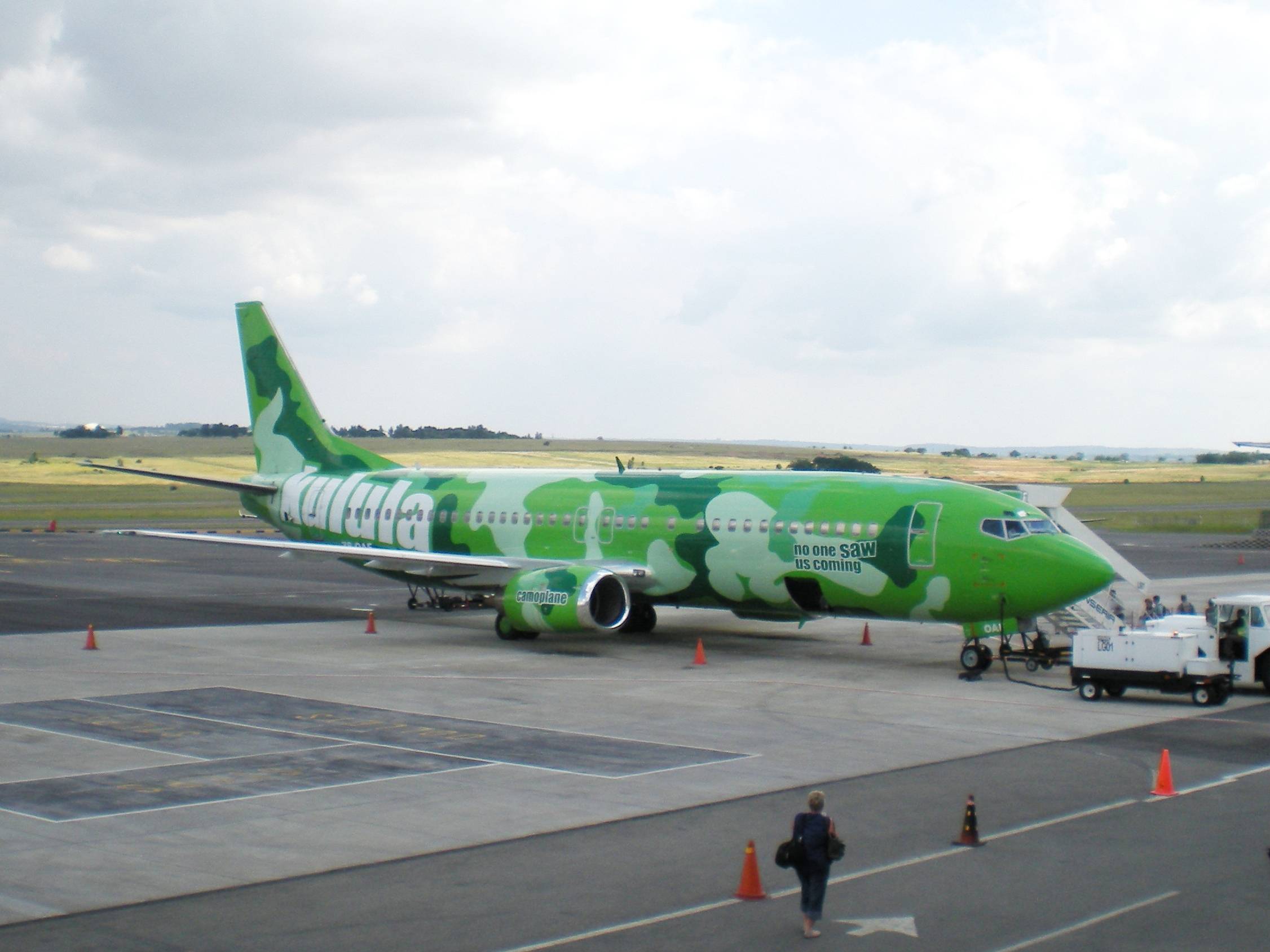 aircraft (ZS-OAF), 20 minutes before departing Lanseria Airport.